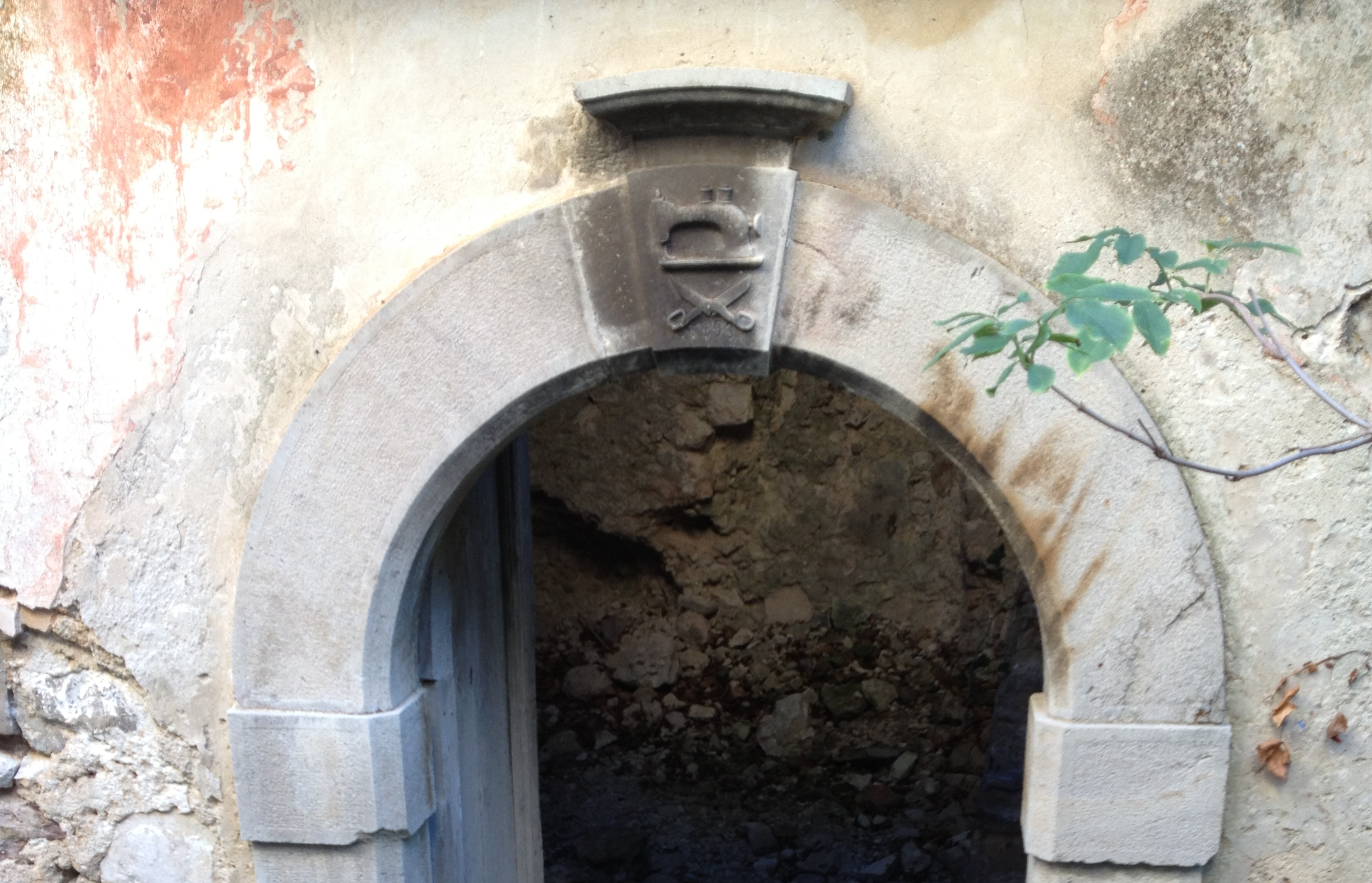 The keystone of a door that represents in bas-relief a sewing machine and the scissors, symbols of the tailor who lived in the house.